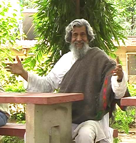 Video snapshot of S. Upadhyay (Jaya), founder of Jagriti Vihara